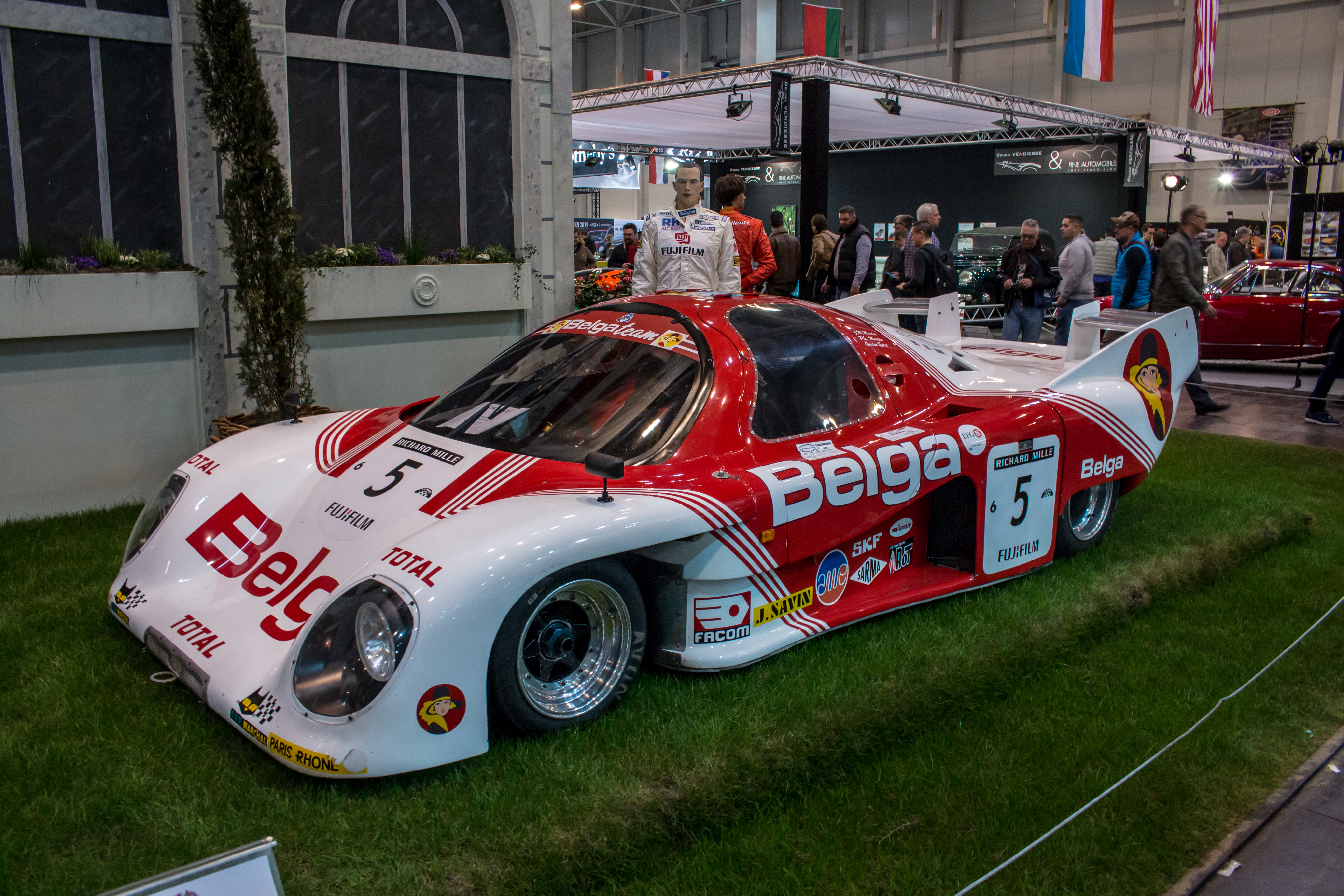 Techno-Classica 2018, Essen